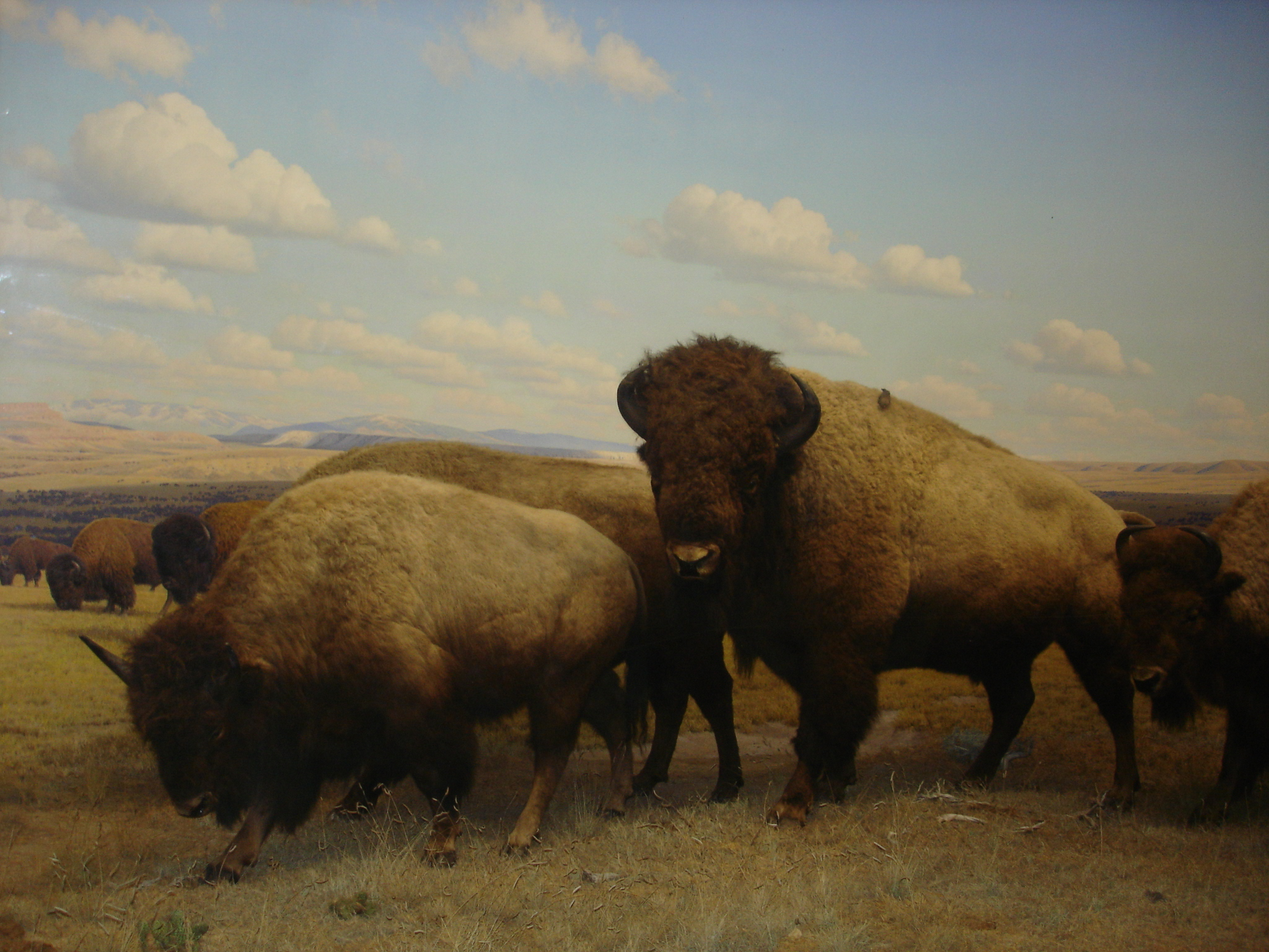 If you like these picture visit our blog at Travel Tipsor where you can connect with us via our social networks. You will also find awesome travel posts for some of the most famous world destinations. The American Museum of Natural History (abbreviated as AMNH), located on the Upper West Side of Manhattan in New York City is one of the largest and most celebrated museums in the world.